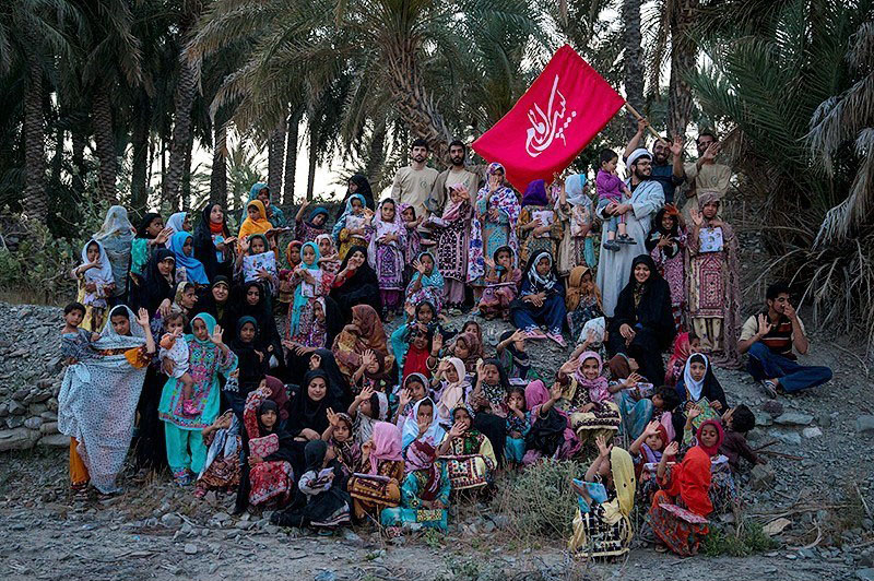 First worship celebration of Baloch girls from Nik Shahr County